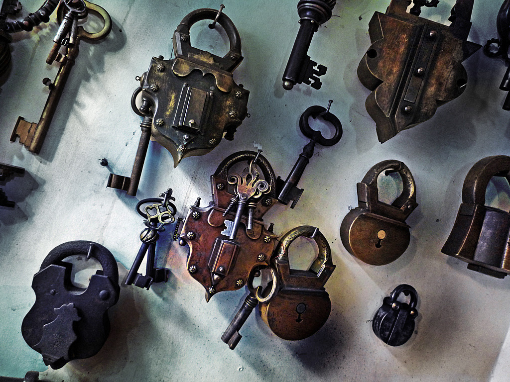 Turkish handmade locks in cingil el sanatlari